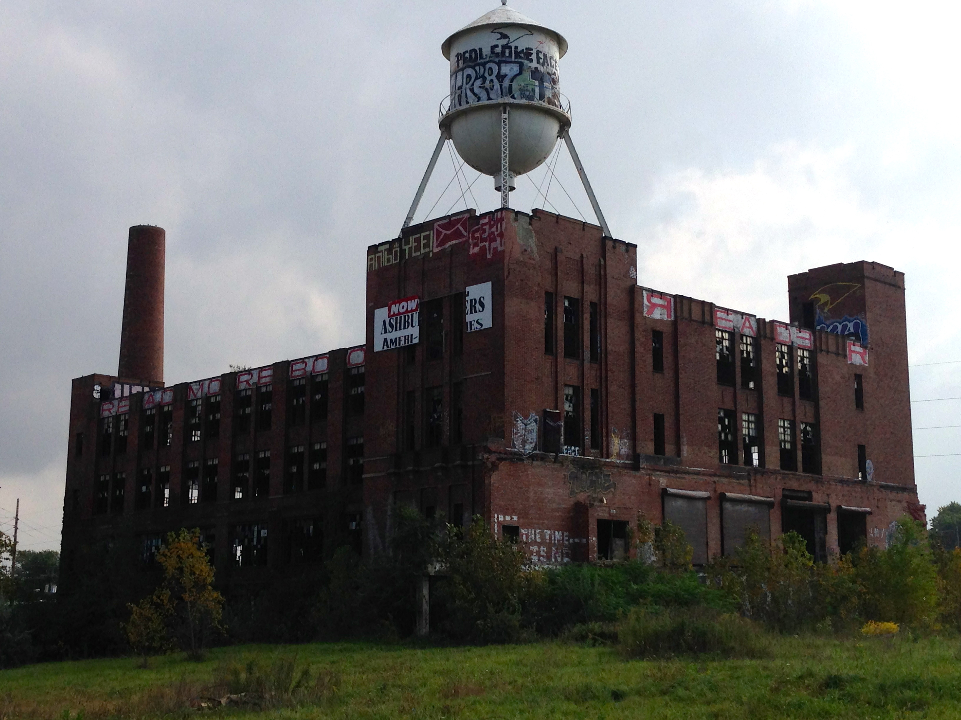 The Joseph and Feiss Clothcraft Shops, 2149 W. 53rd St.(warehouse building/Walworth Ave. and Junction Rd.).